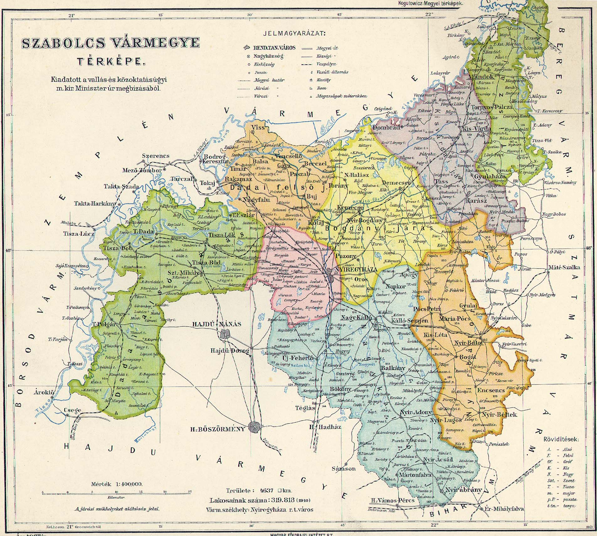 Administrative map of the county of Szabolcs in the Kingdom of Hungary